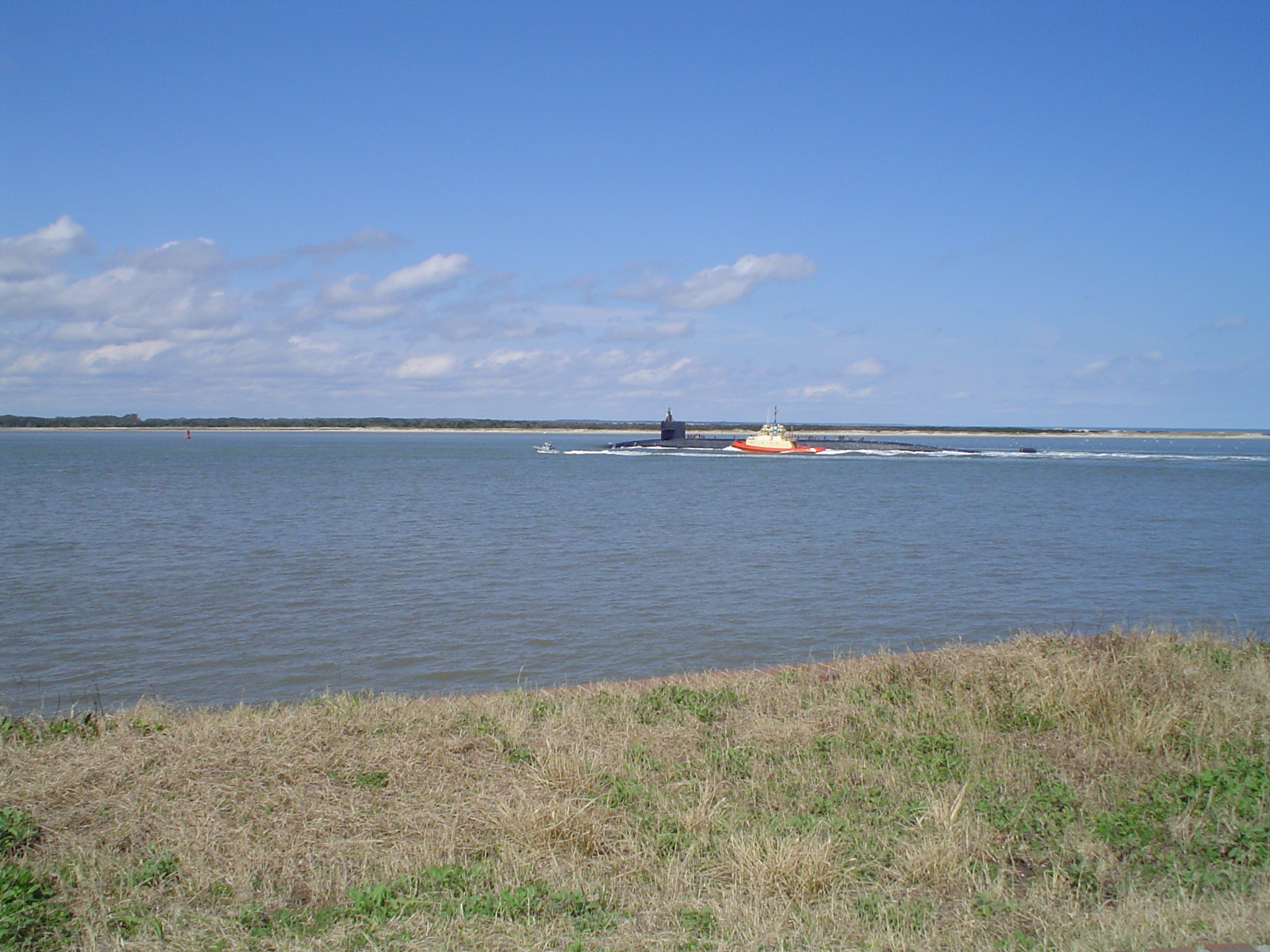 The following is the author's description of the photograph quoted directly from the photograph's Flickr page. "This was the view from the ramparts of Fort Clinch. The sub was headed up to the sub base at King's Bay, Georgia. "